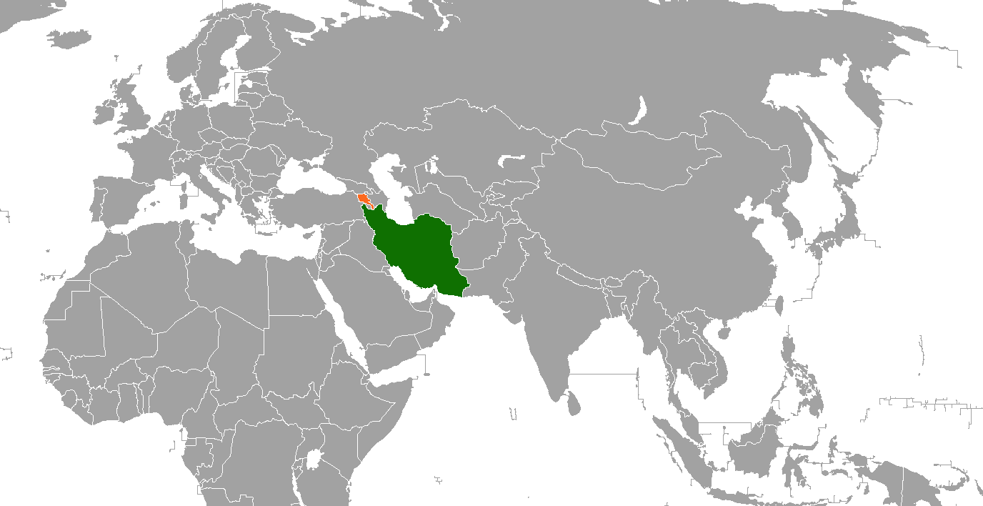 Created by user:Aivazovsky for use in bilateral relations article.